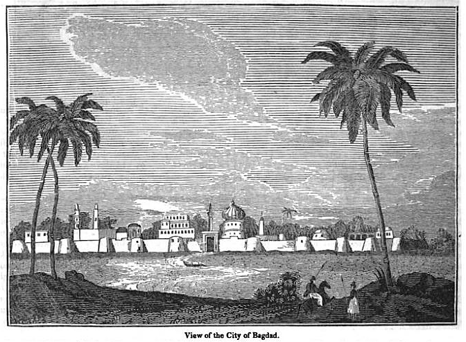 Illustration from: American Magazine of Useful and Entertaining Knowledge. vol.1, 1834.